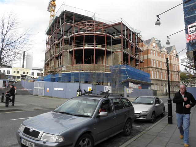 North West Regional College When I attended this establishment in the 1960's it was known at Londonderry Technical College, others called it Derry Tech. Once again extensions are being added to the building located along Strand Road. The highlight of our day-release session was to get up the Strand Road at lunch time and go to the Chinese Restaurant, I think at the time they offered a 3 course lunch for 4s/6d. Sounds cheap but then we were getting £5.00 per week